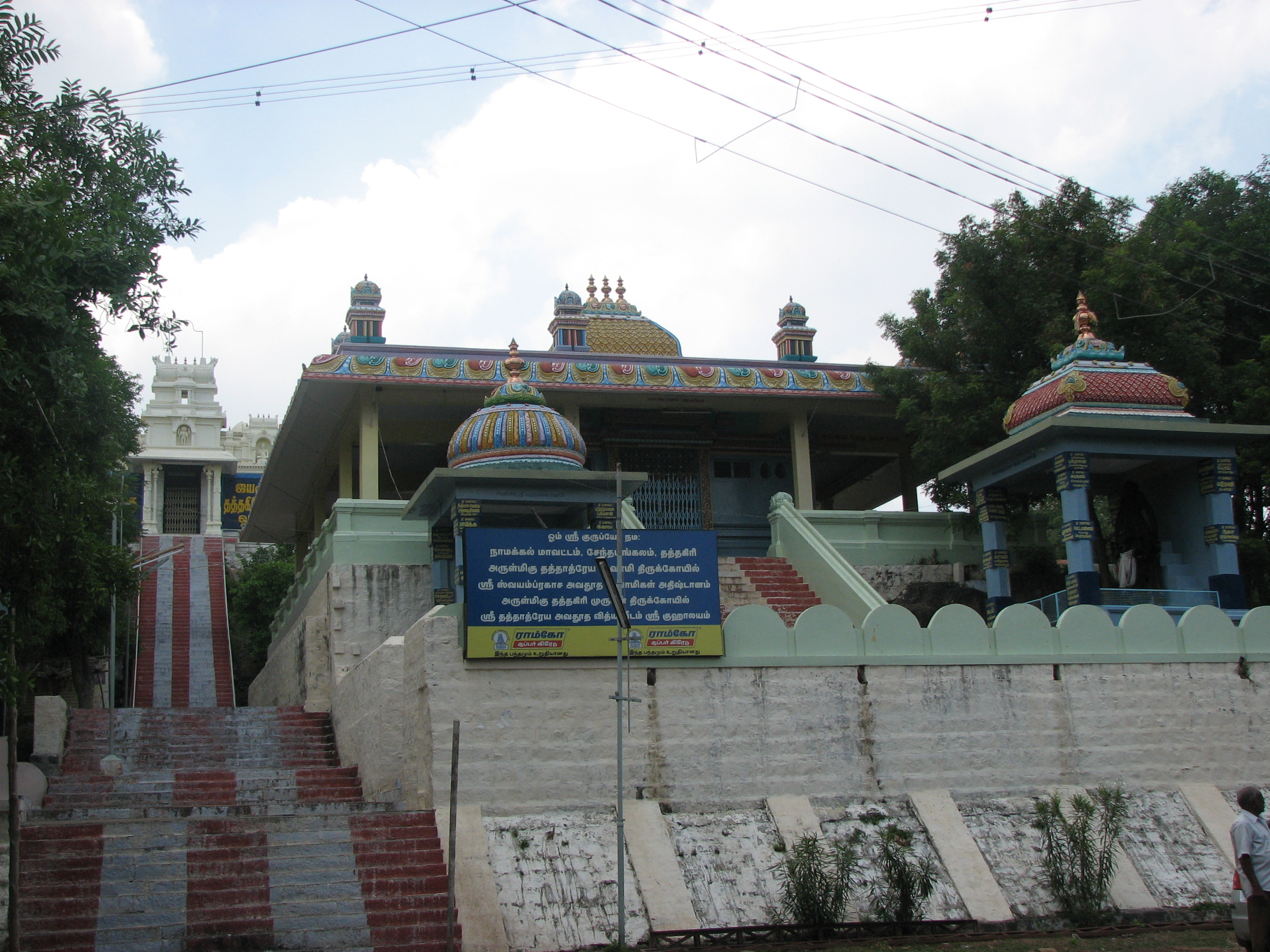 Thathagiri Murugan temple near Sendamangalam, Namakkal India